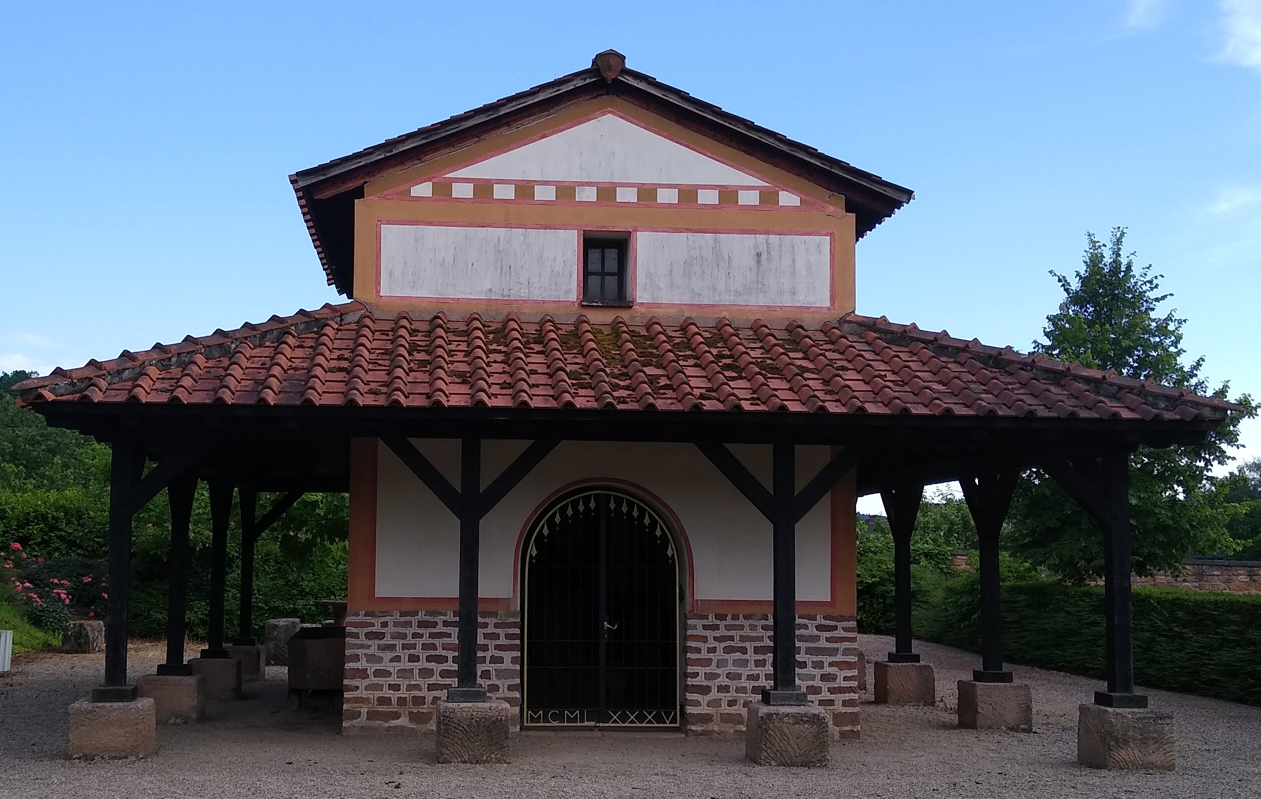 Reconstruction of Gallo-Roman Sanctuary (Fanum) from Temple District (Temenos) at the Klosterwald by Bierbach an der Blies. Reconstruction is accessible to the public at the Roman Museum at Einöd-Schwarzenacker.